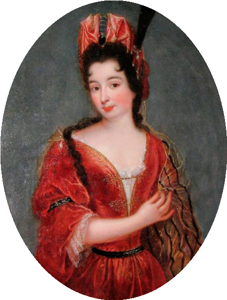 Supposed portrait of Gabrielle de Rochechouart de Mortemart (circle of François de Troy).